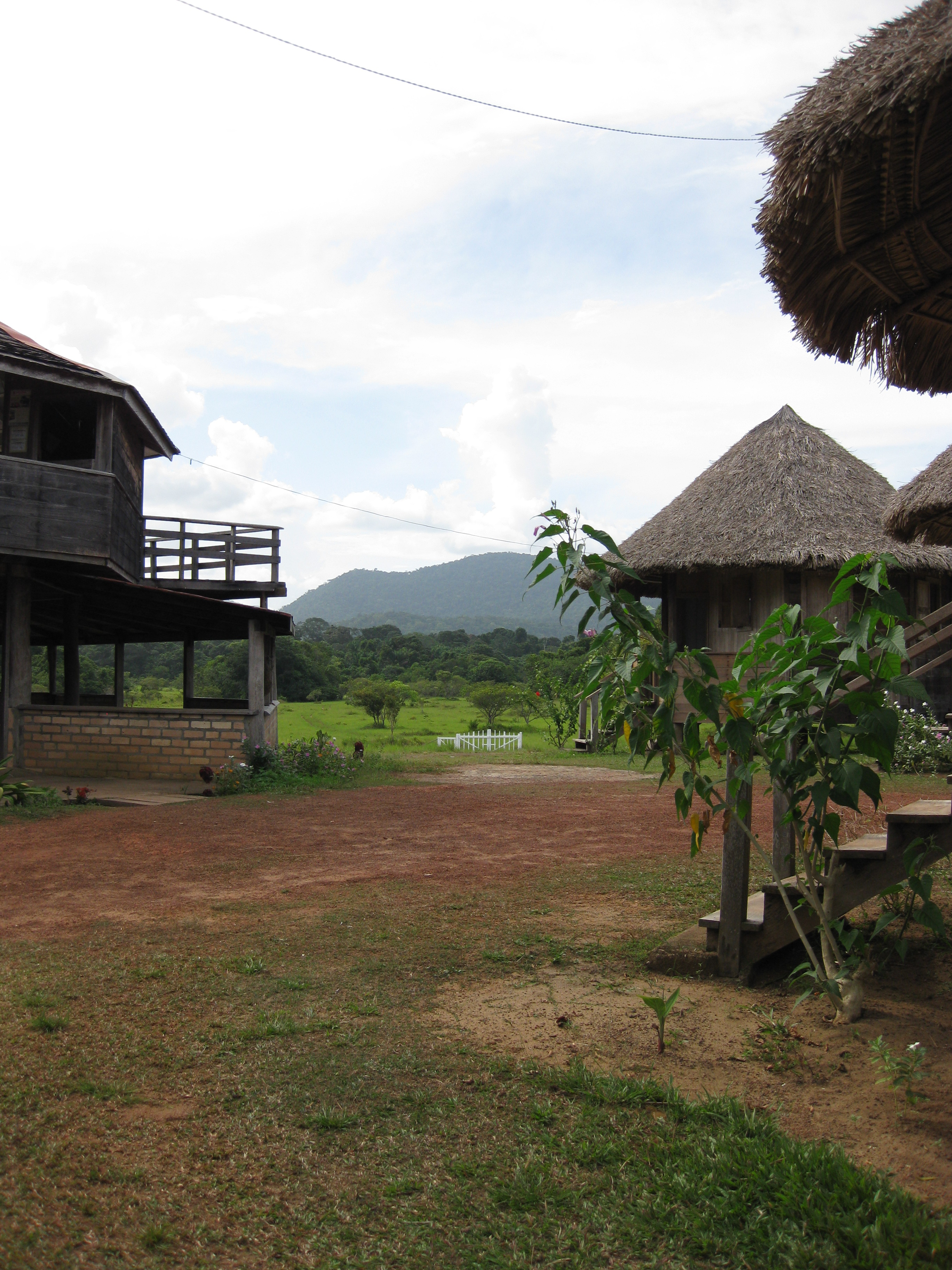 Photograph of Surama Eco-Lodge, Surama, Guyana.